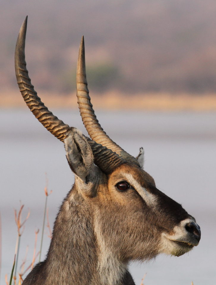 Waterbuck, Kobus ellipsiprymnus at Borakalalo National Park, South Africa